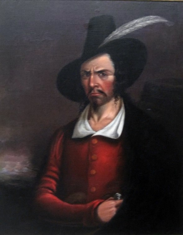 Portrait said to be of Jean Lafitte